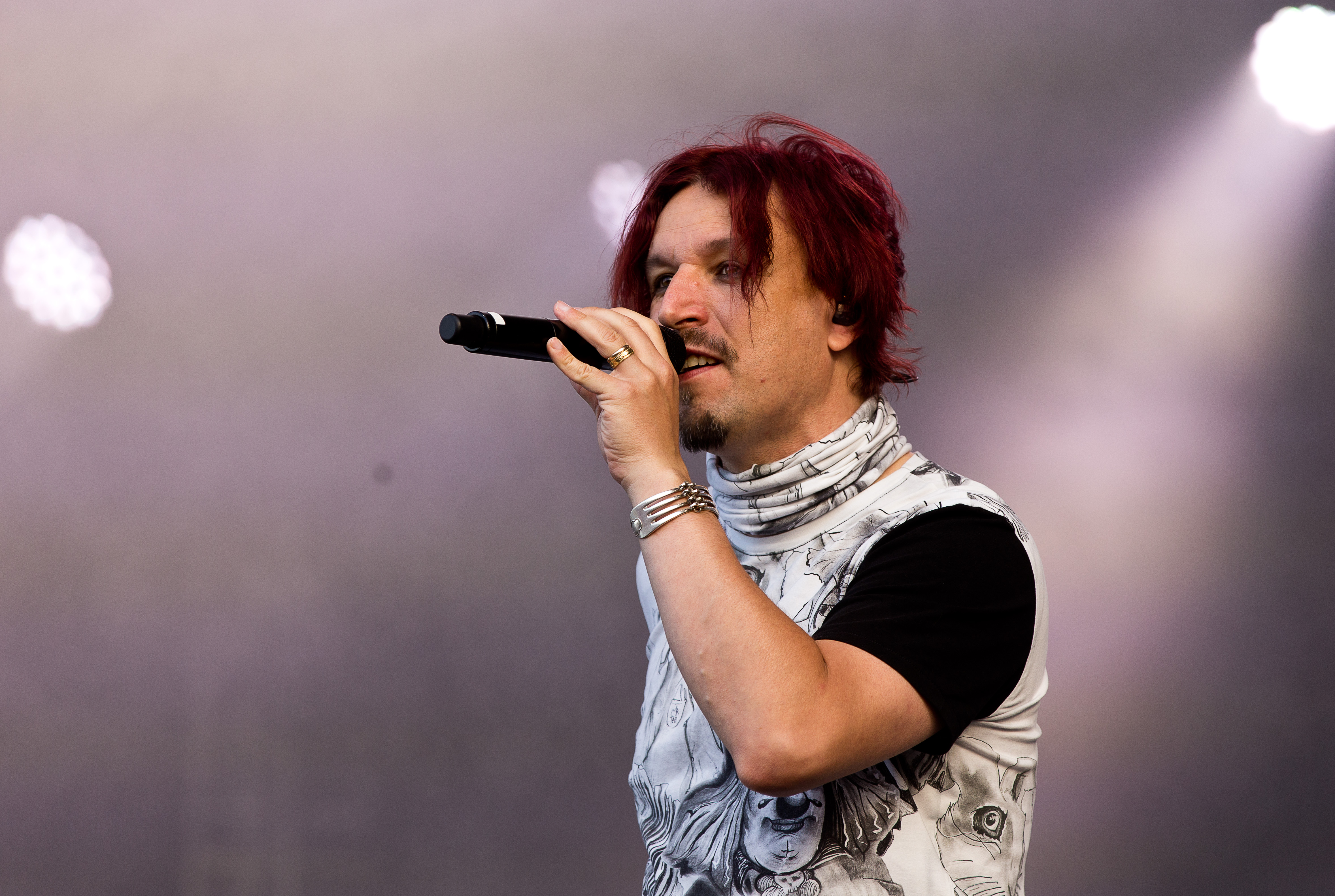 The Finnish power metal band Sonata Arctica at the Rockharz Open Air 2016 in Ballenstedt/Germany.